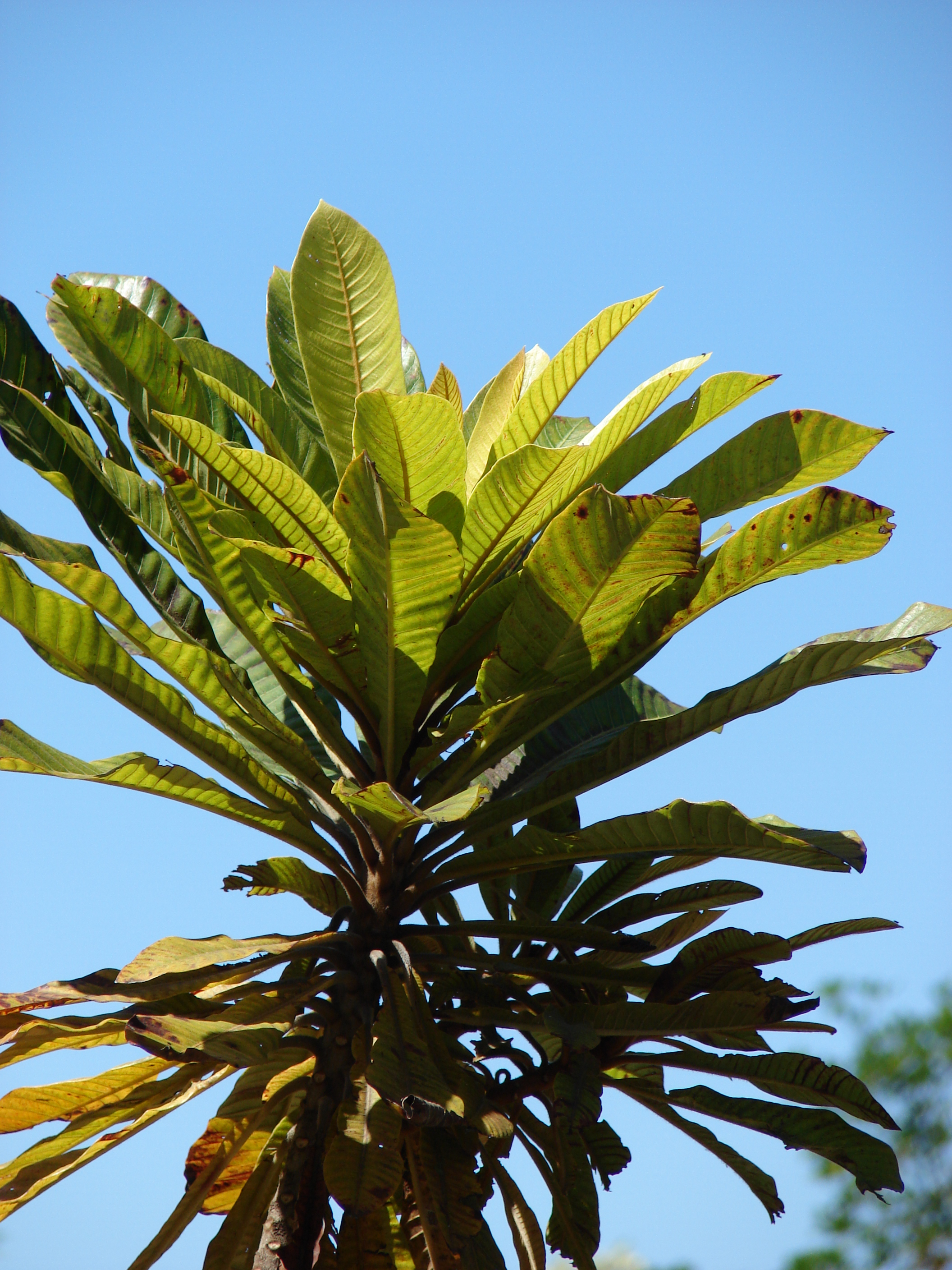 Dillenia indica (leaves). Location: Maui, Enchanting Floral Gardens of Kula